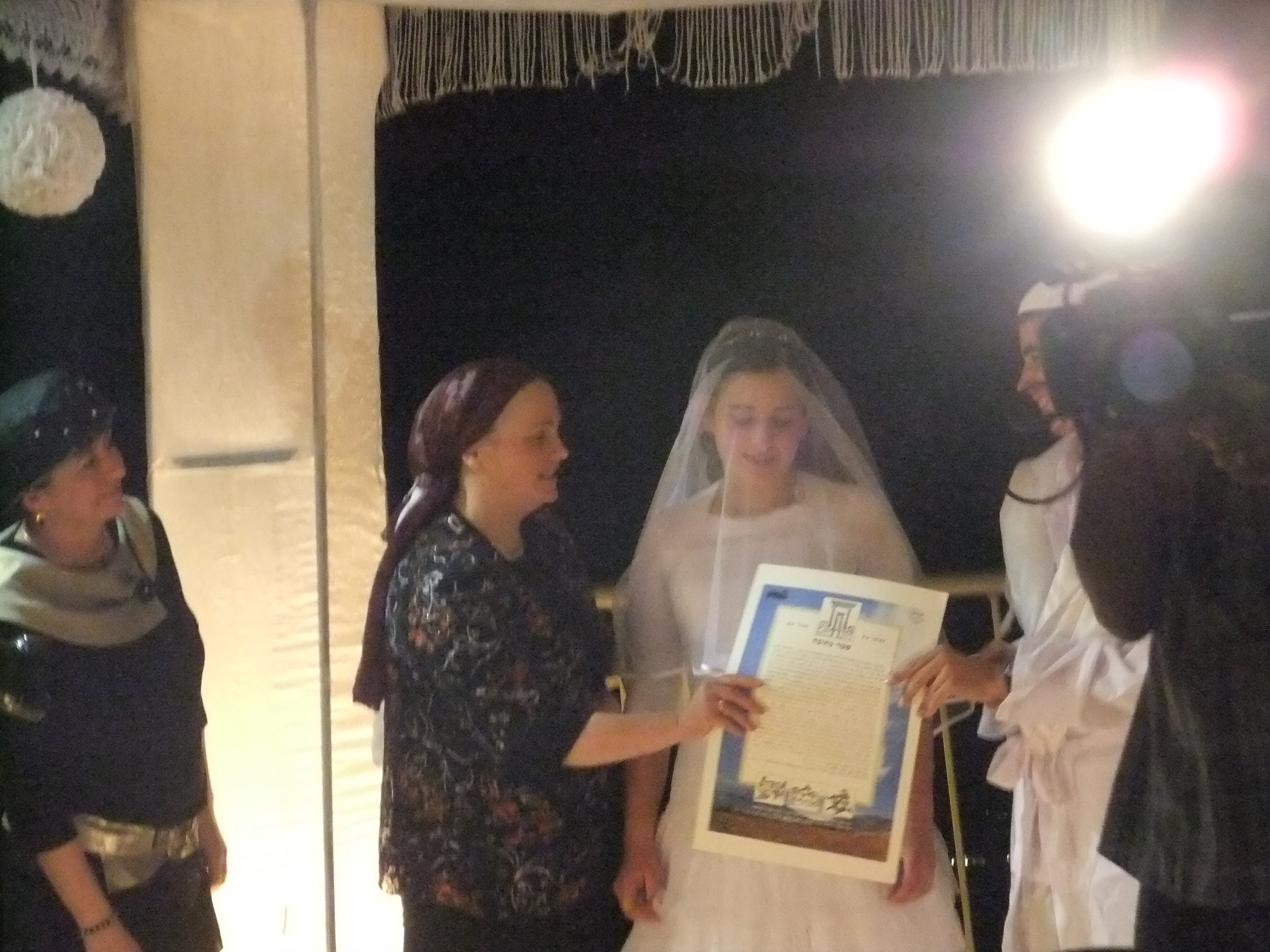 The mother of the bride holding the Ketubah for display after it was given to her by the groom